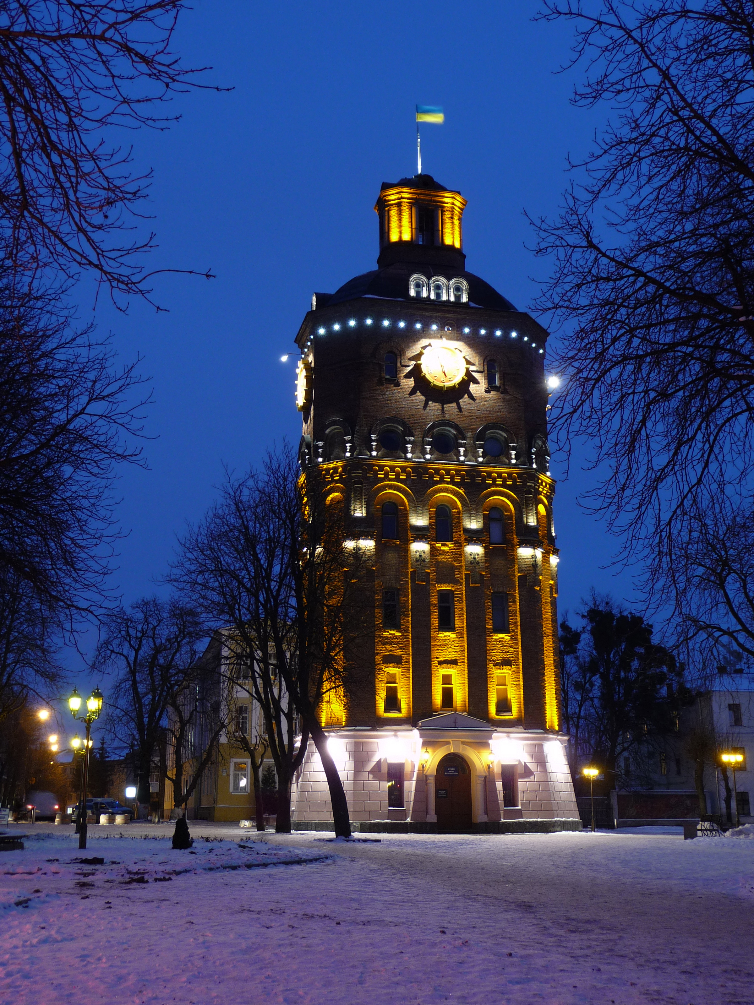 The former water tower in the center of Vinnitsa, Ukraine. View in the winter evening. Celebratory illumination for Christmas holidays.